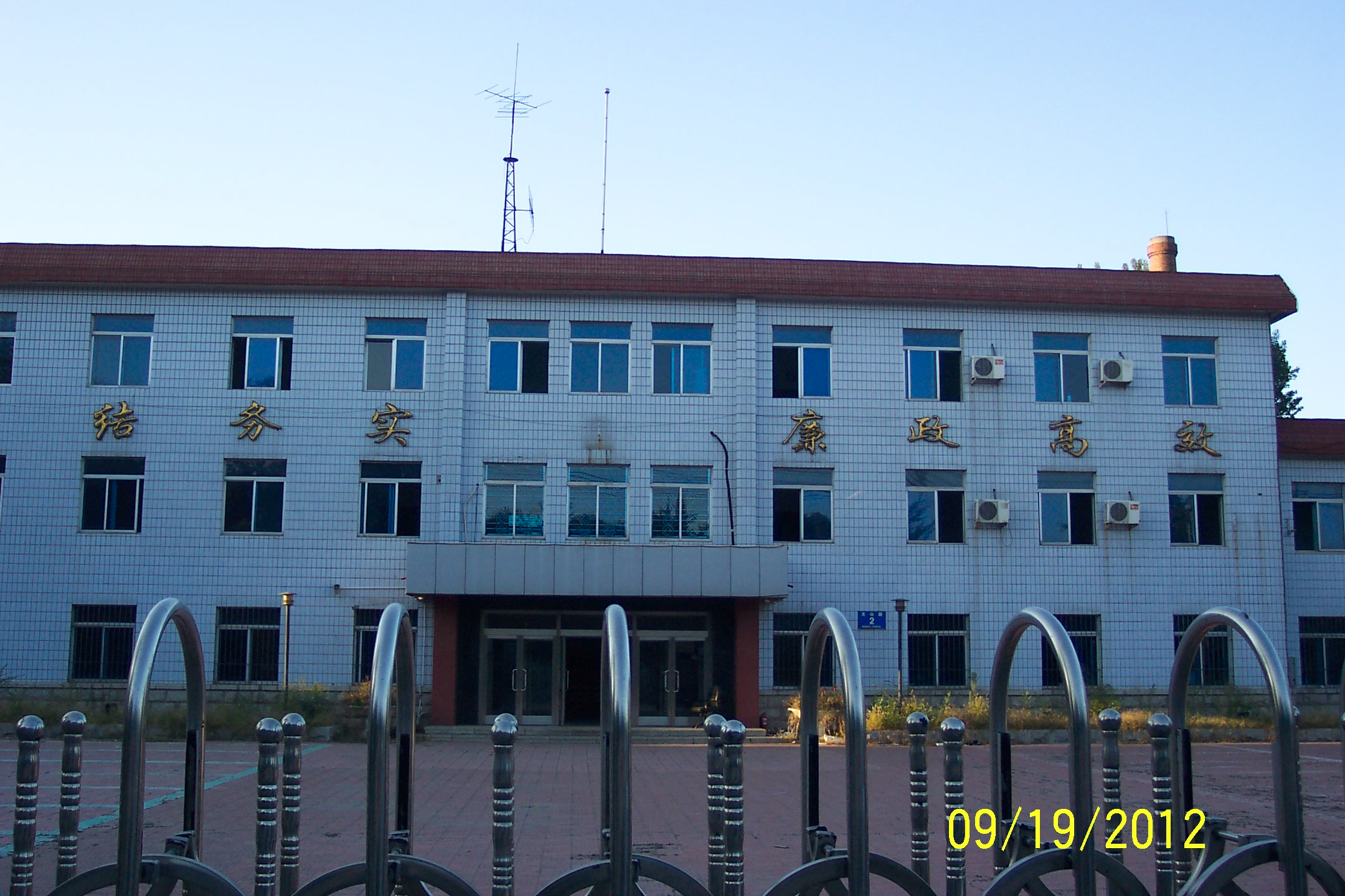 Huanggu District Govenment Headquarters in Shenyang